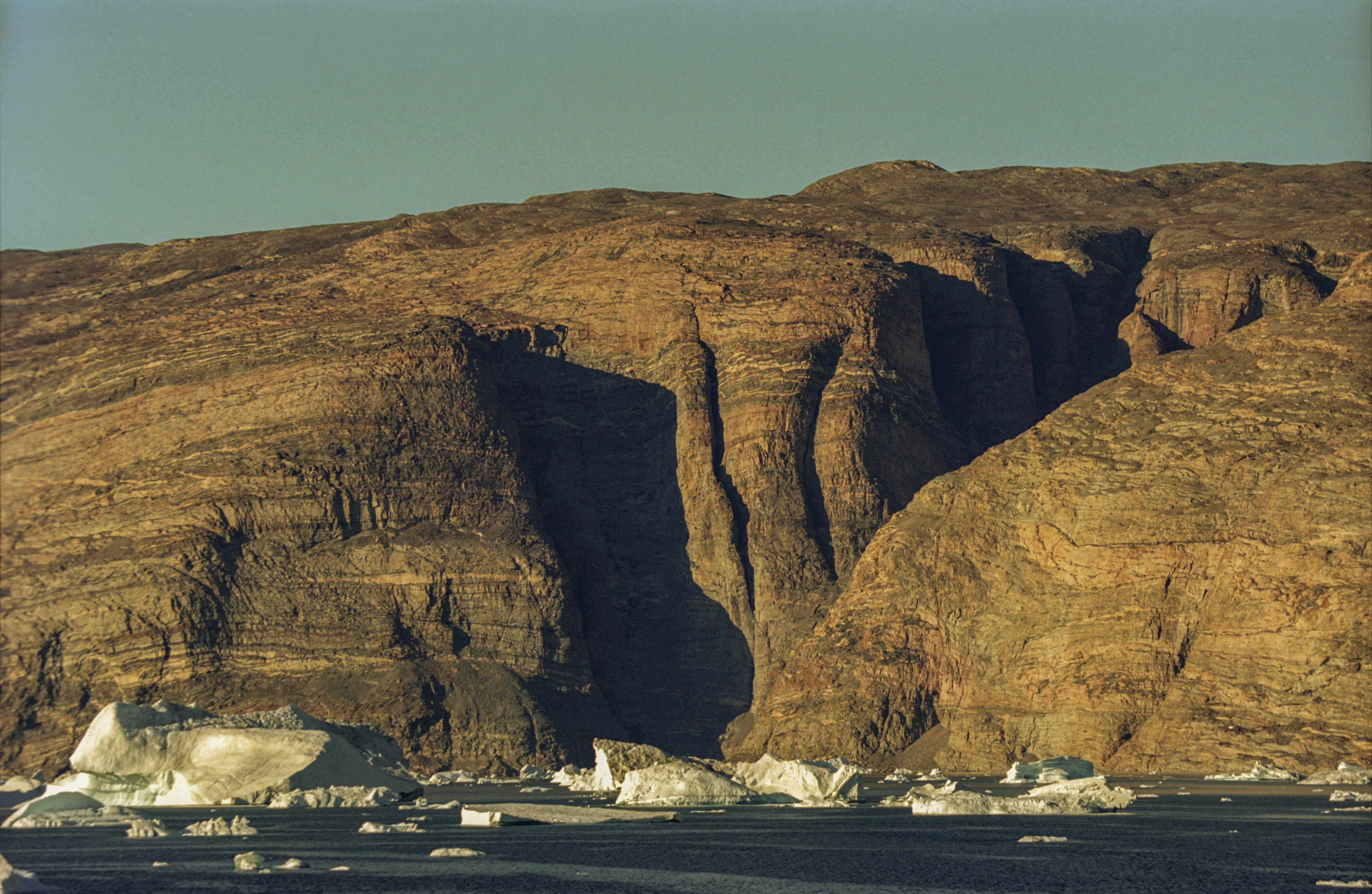 Cliffs at the Northwest Fjord of the Scoresby Sound